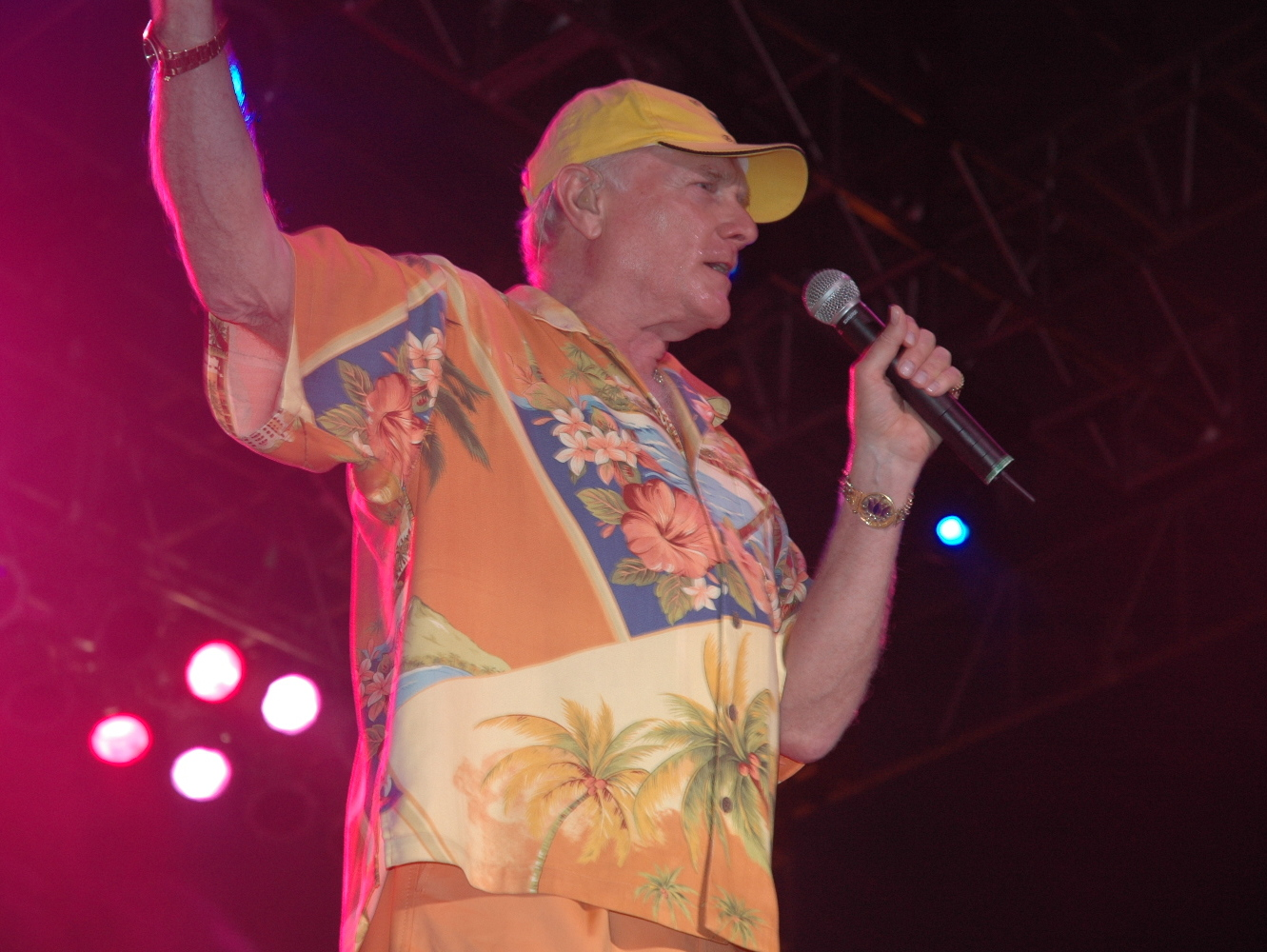 Photo of Mike Love in concert at the City Stages concert in Birmingham, Alabama